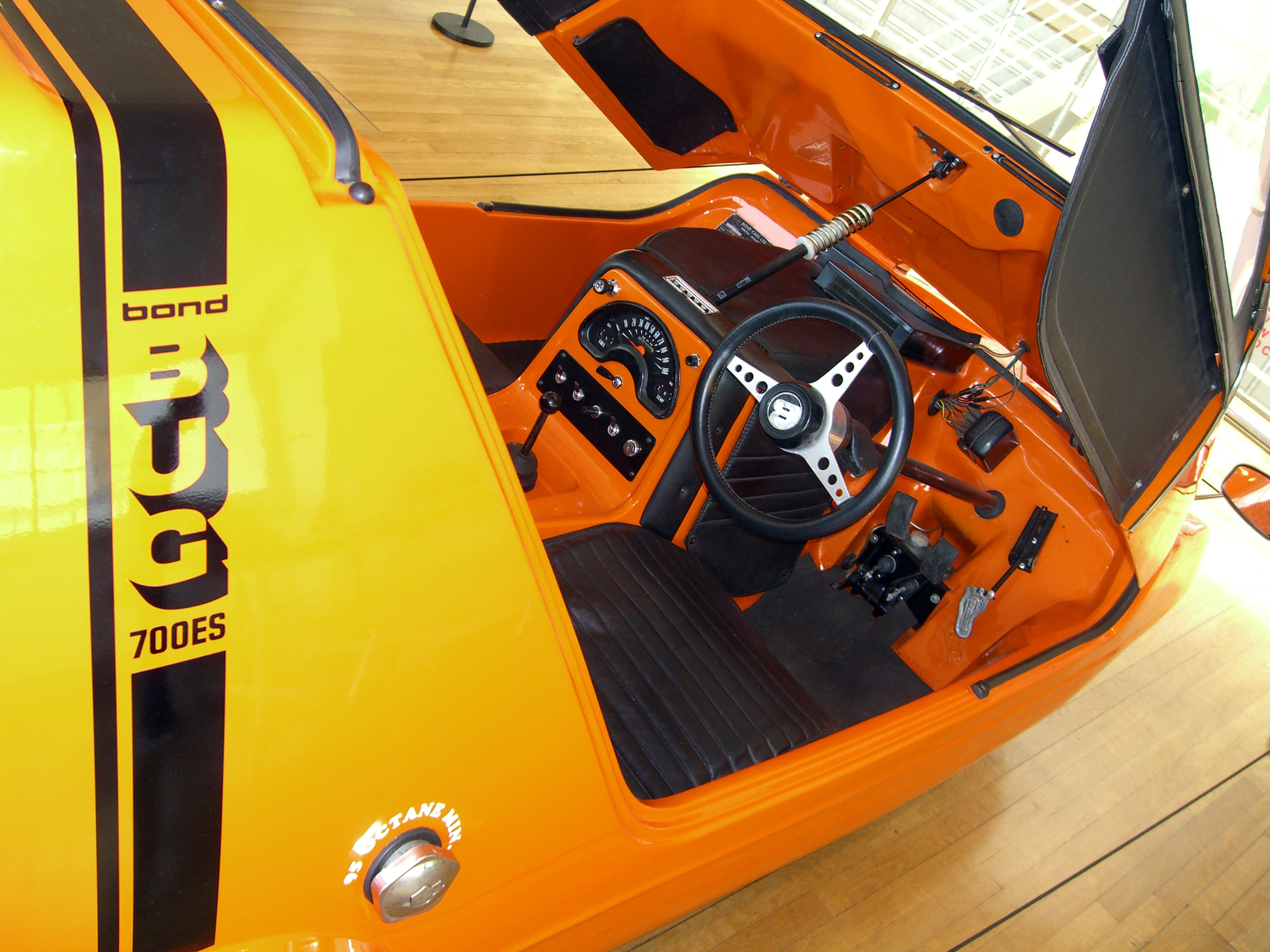 Bond Bug interior.